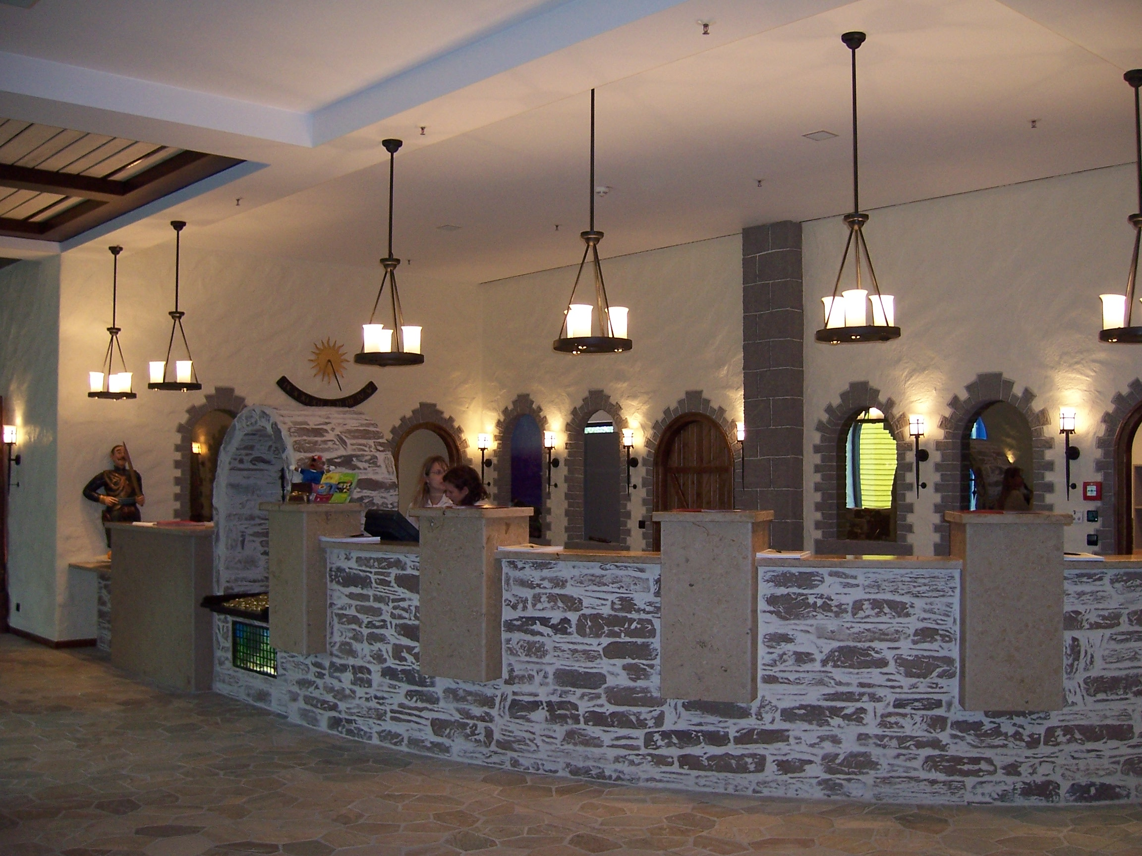 The reception desk at Hotel Port Royal in the Heide-Park in Soltau, Lower Saxony.